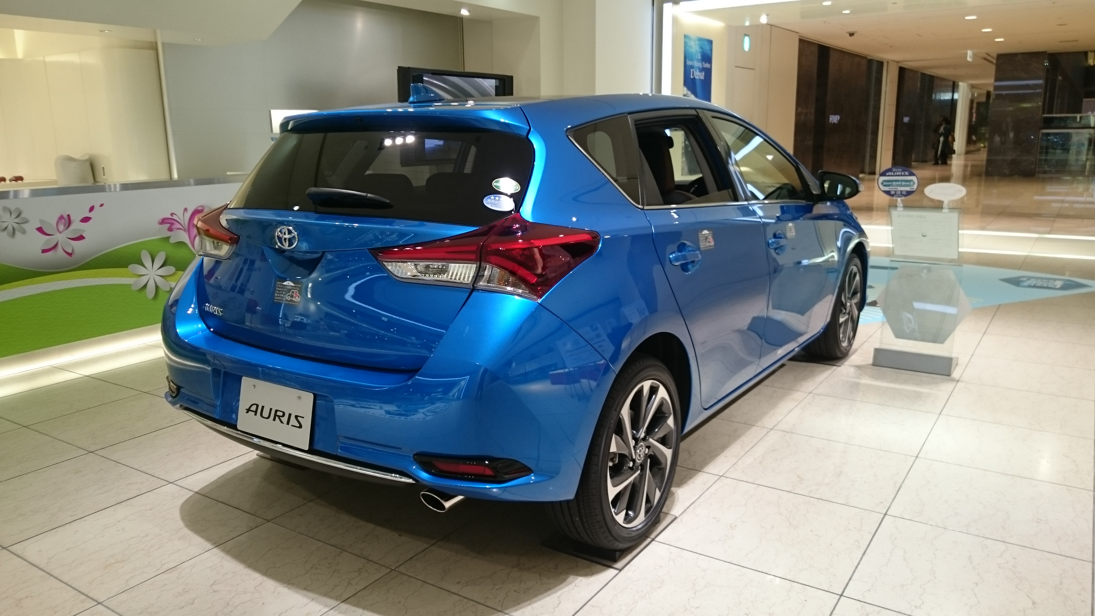 Toyota Auris 120T reaview